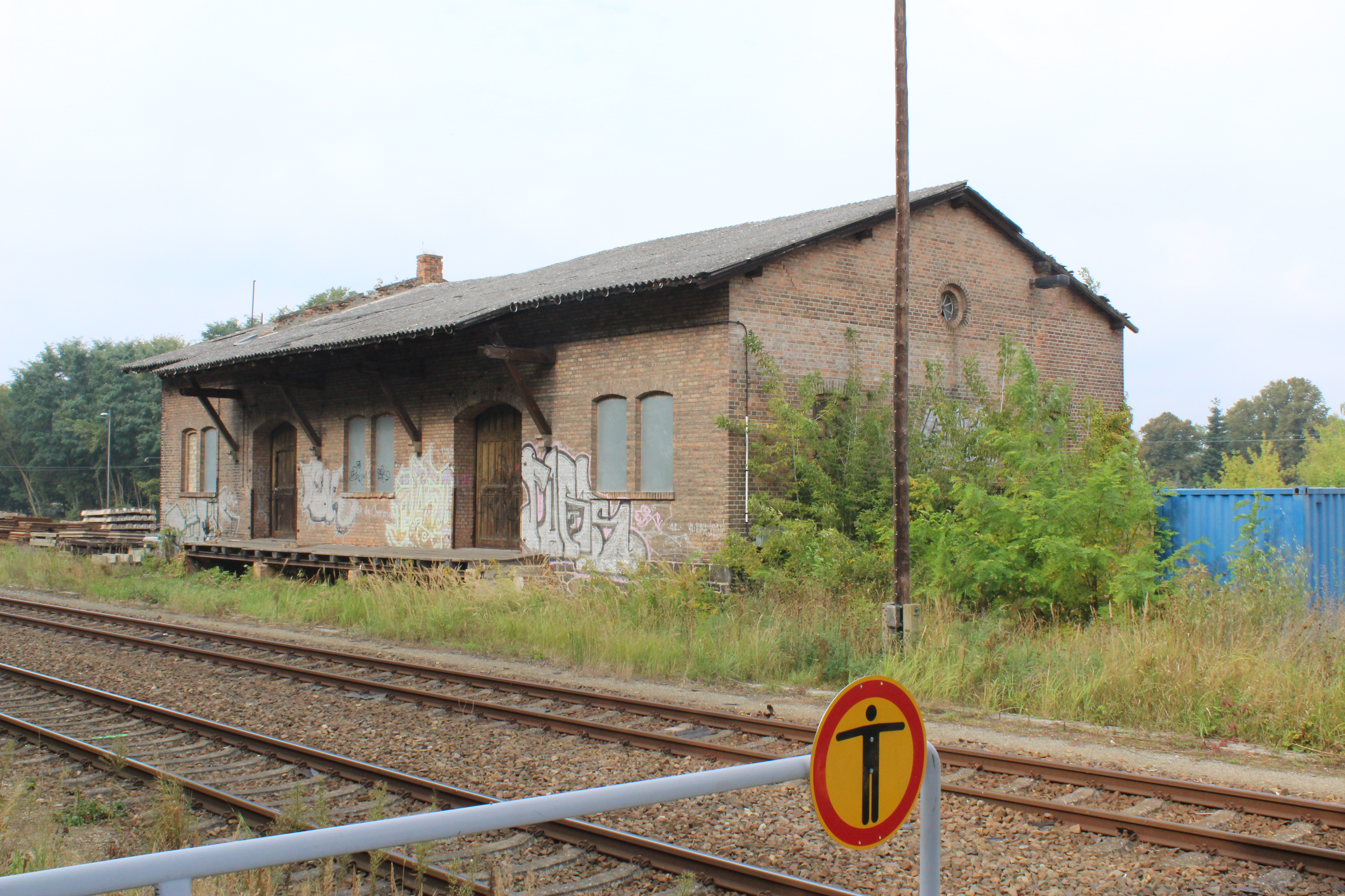 train station Müncheberg (Mark), goods shed